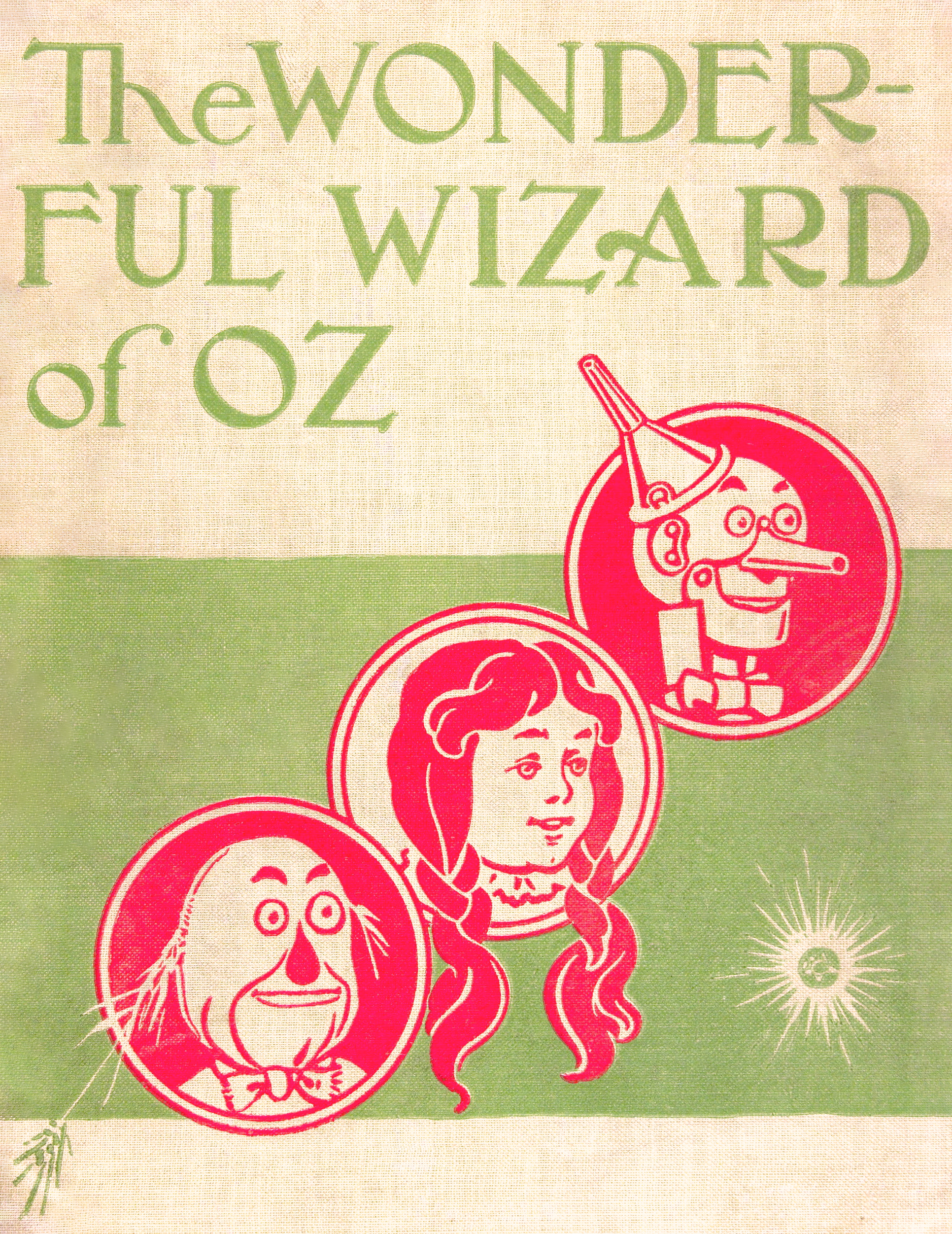 The back cover of The Wonderful Wizard of Oz, ©1899